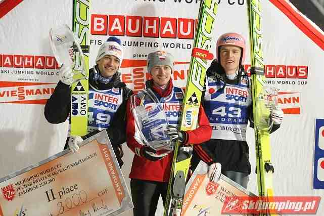 Podium of friday competition of FIS Ski Jumping World Cup in Zakopane, 2011 From left: Andreas Kofler, Adam Małysz, Severin Freund